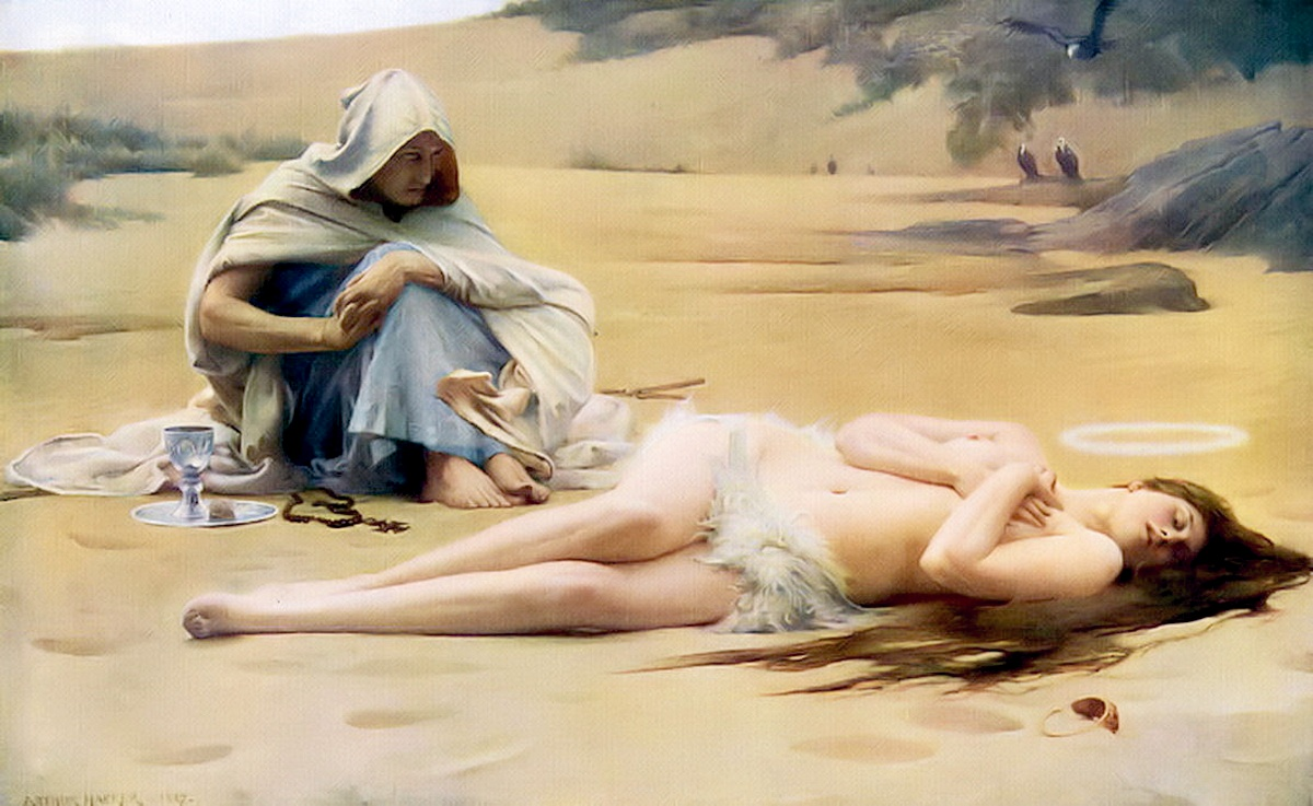 Illustrates a scene from the final pages of Charles Kingsley's novel Hypatia published 1853. Philammon is a monk and abbot, who finds his sister Pelagia - who has been living as a hermit in the desert - at the point of death, and administers the holy sacraments to her.